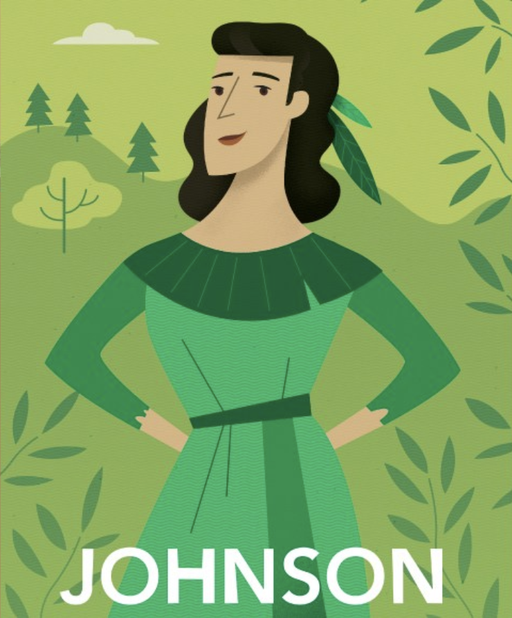 Pauline Johnson - Illustration for The York School